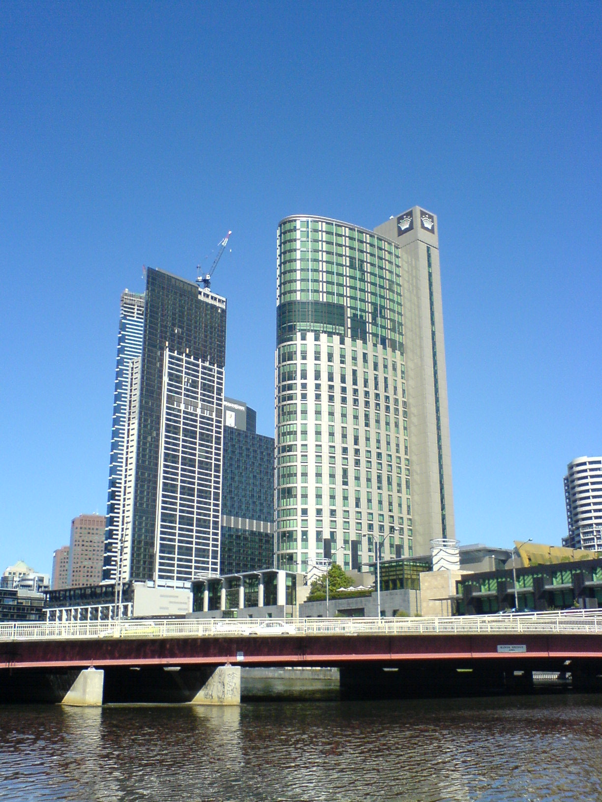 Crown Towers, Melbourne, Australia, with Freshwater Place under construction on the left and King Street Bridge in front.